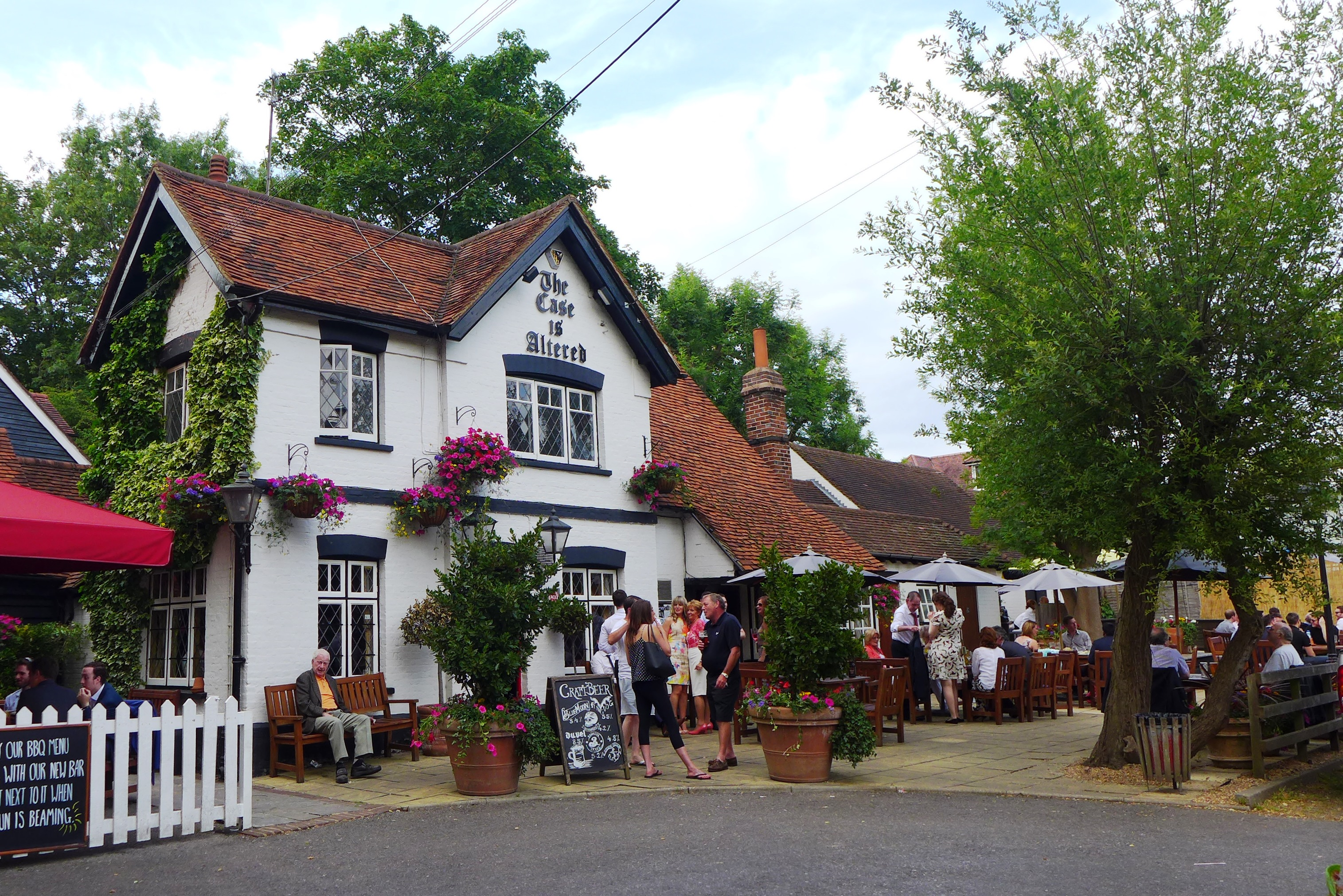 An old pub, and a popular one, with plenty of outdoor space for the sunny weather. (Close-up of pub sign.) Address: Eastcote High Road. Owner: McManus (website); Punch Taverns [Spirit Group] (former); Clutterbucks (former). Links: London Pubology